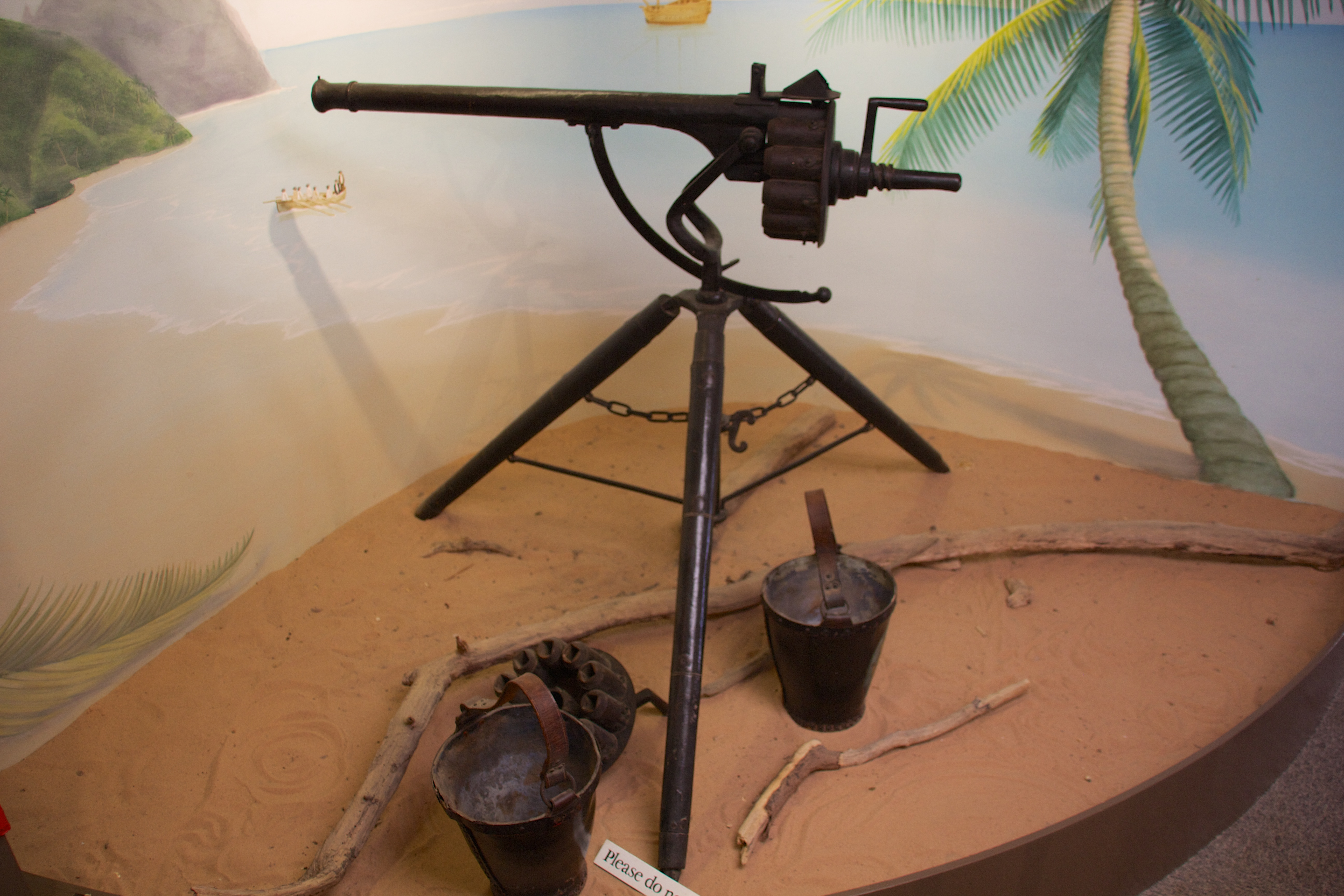 Puckle Gun. Buckler's Hard Maritime Museum, Beaulieu, Hampshire, United Kingdom.